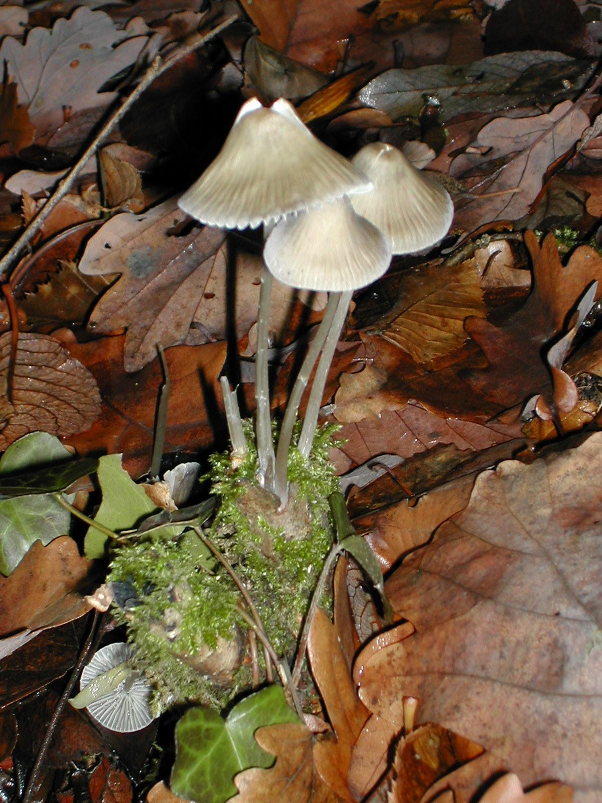 Three wood fungi. Numerical photo taken in january 2001, in a wood near Château-Thierry.